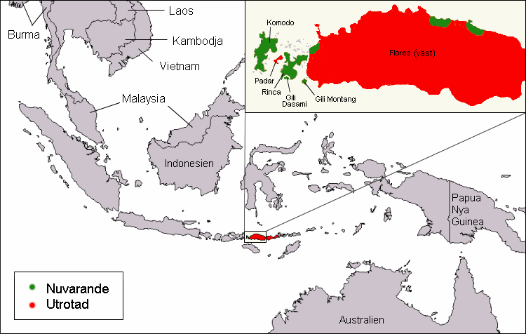 Swedish version of Image:Komodo_dragon_distribution.gif